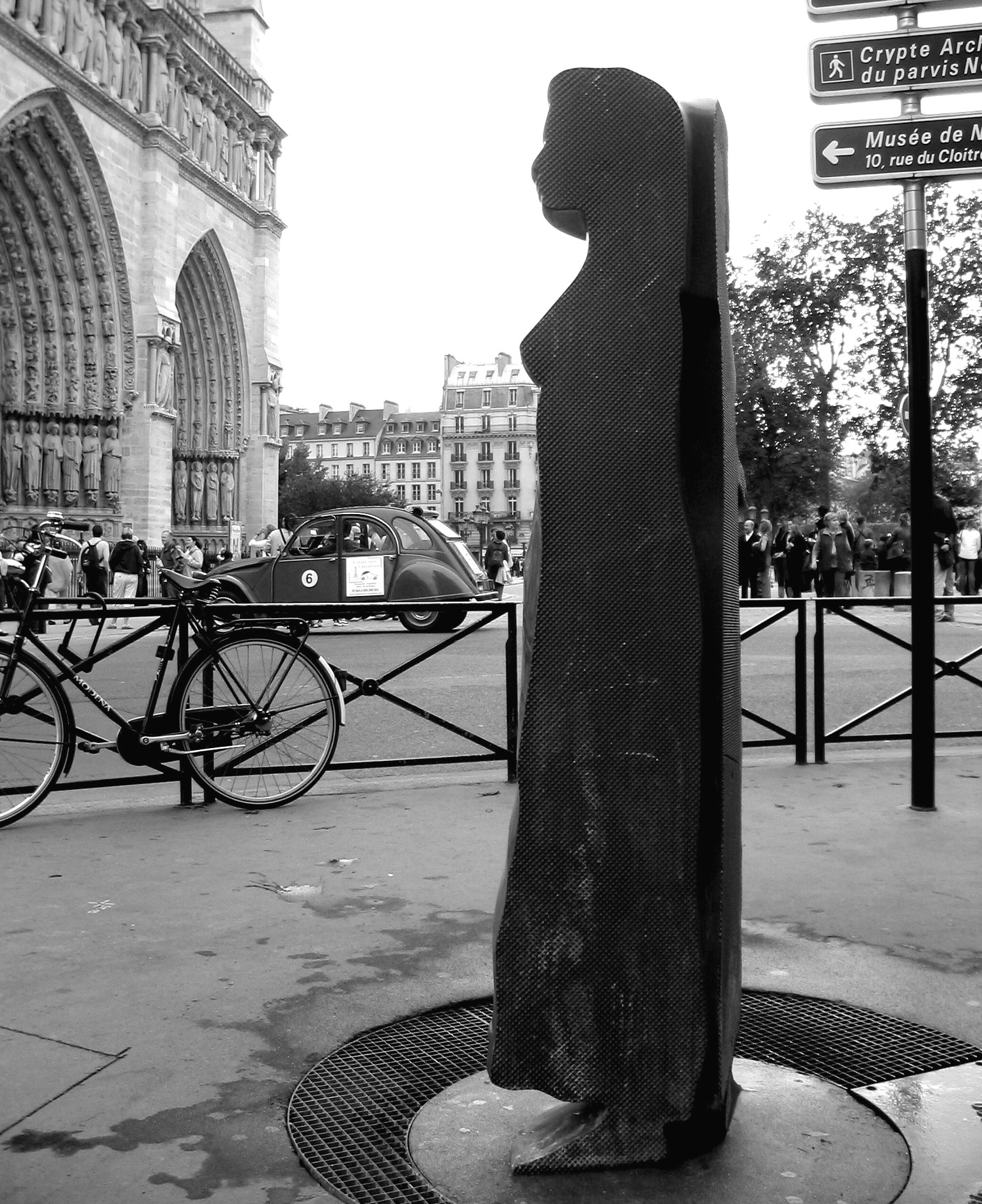 Foutain as a woman, near Notre-Dame de Paris. Contrasts increased.